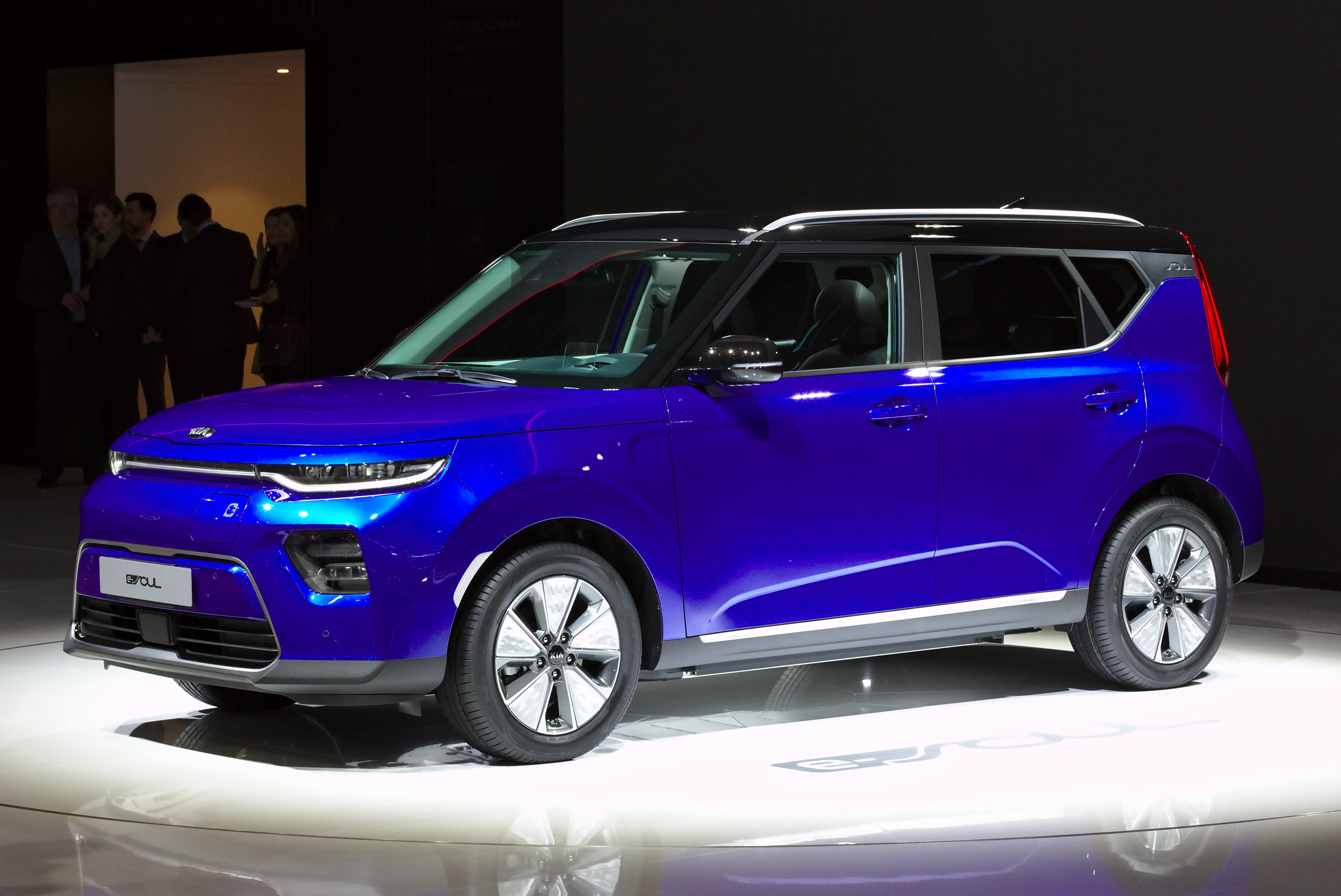 Kia e-Soul at Geneva Motor Show 2019